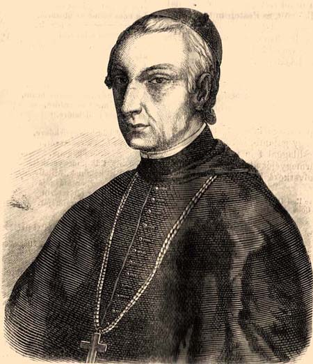 Portrait of János Hám